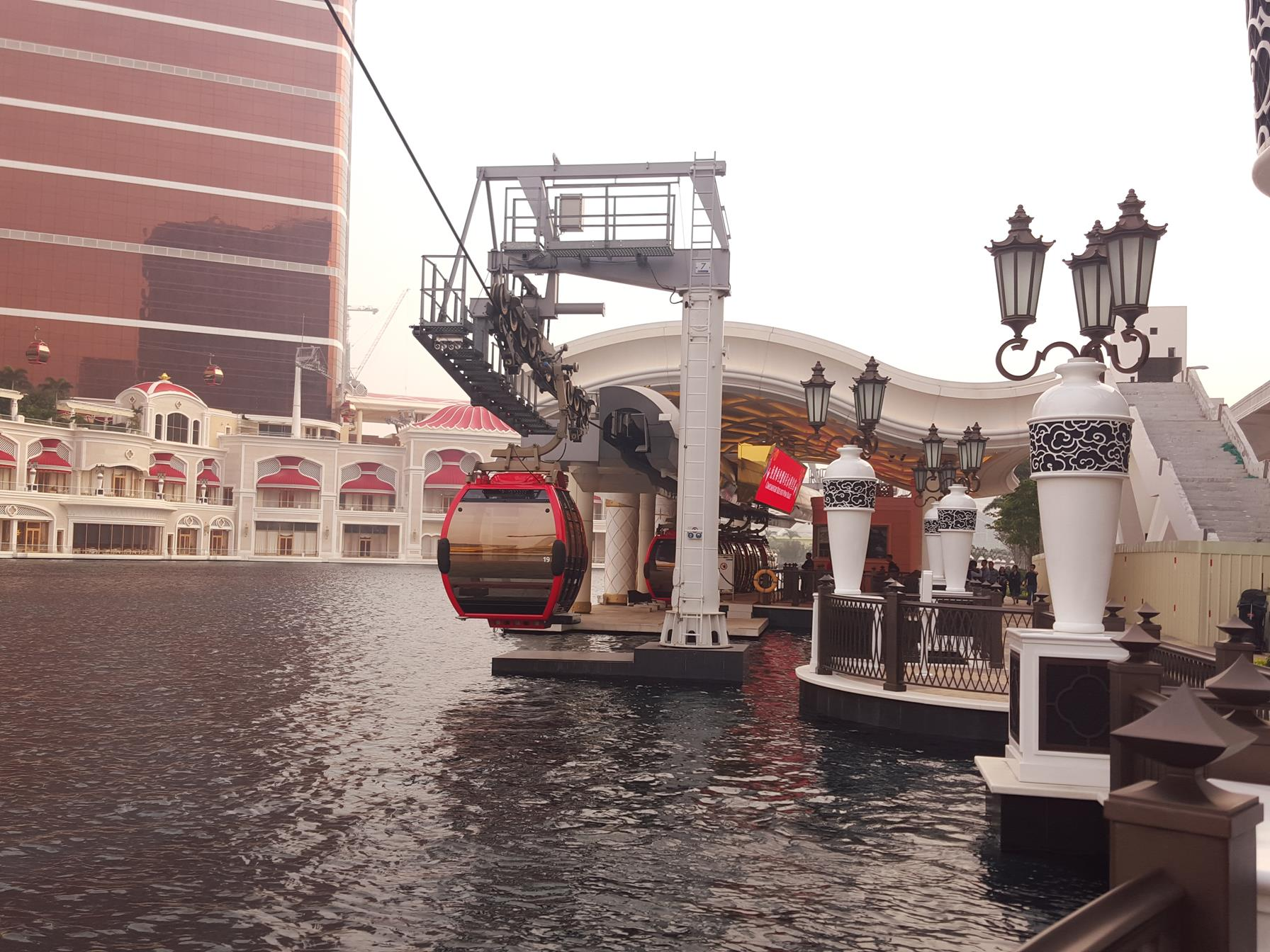 Wynn Palace, Cotai